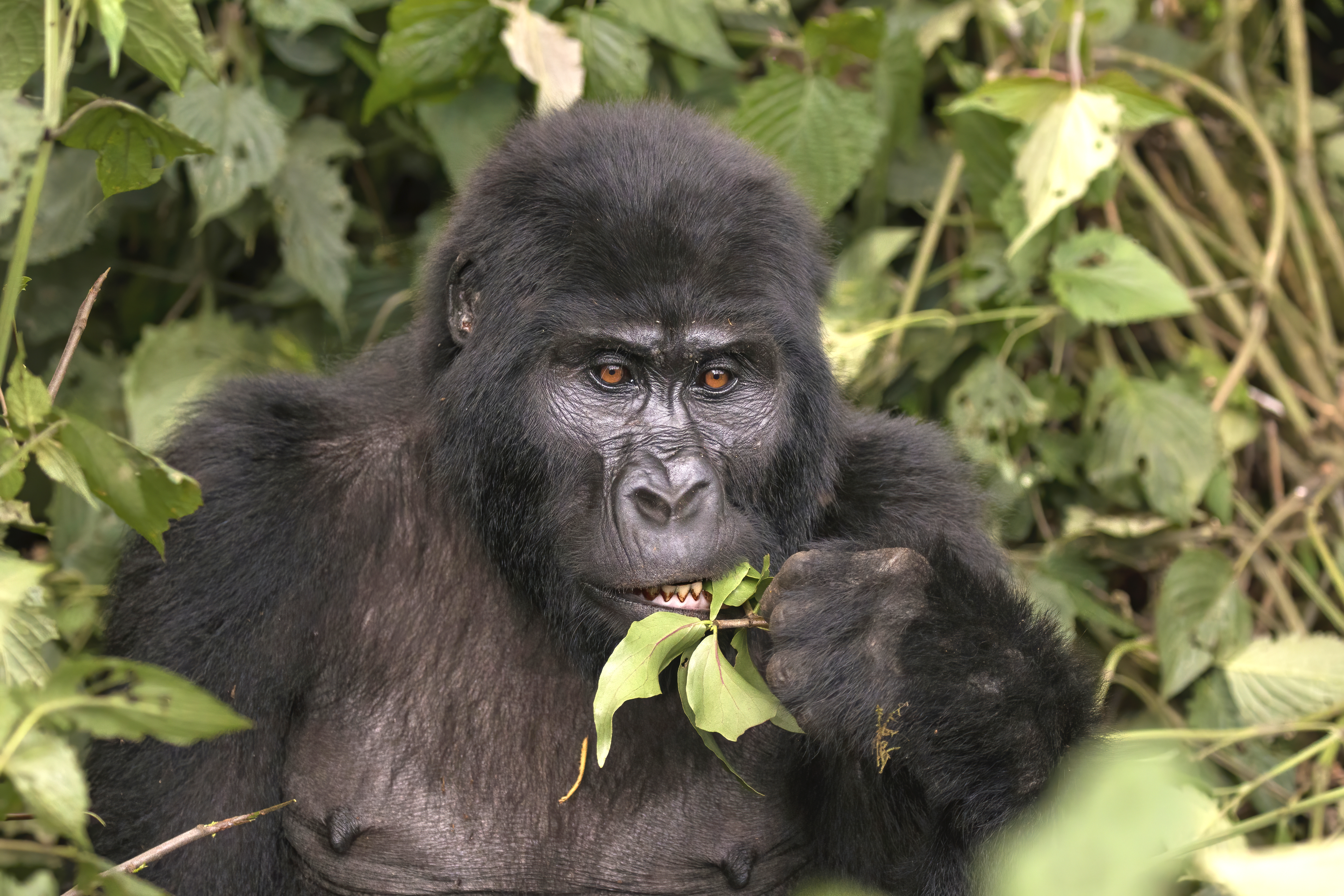 Mountain gorilla (Gorilla beringei beringei) , Mubare Group, Uganda. Bwindi Impenetrable Forest is home to nearly more than half of the remaining mountain gorillas in the world and it is one of the best places to go gorilla trekking in Africa.